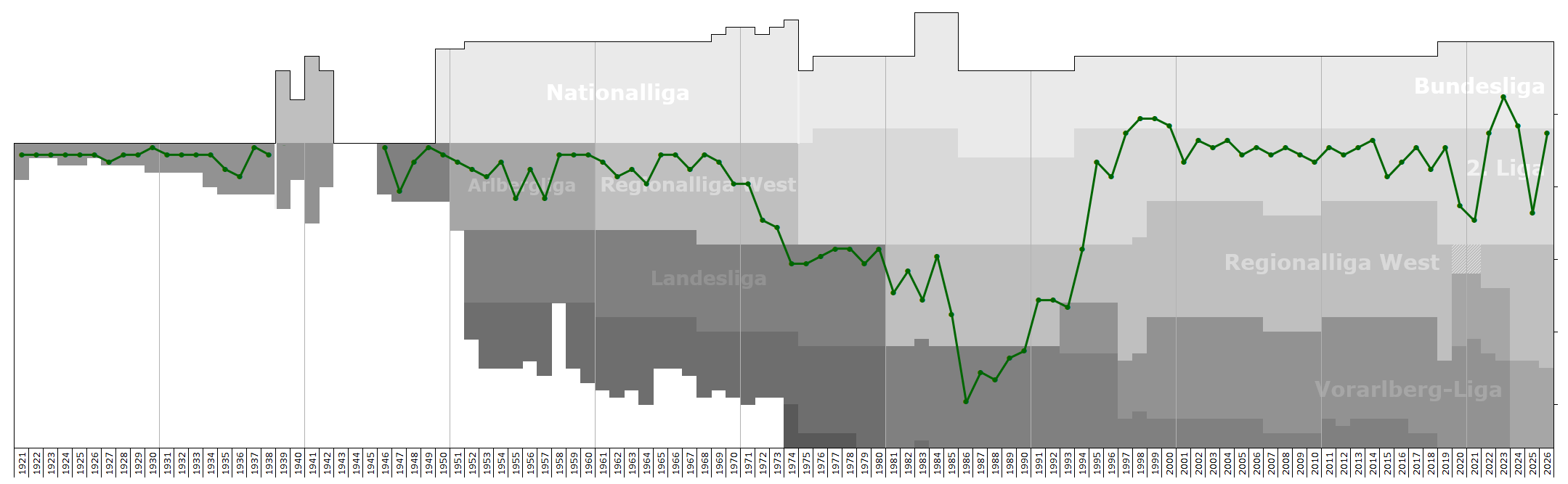 Chart of end-season table positions of Austria Lustenau in the Austrian football league system. Data source: RSSSF, , regiowiki.at, vfv.at, wikipedia